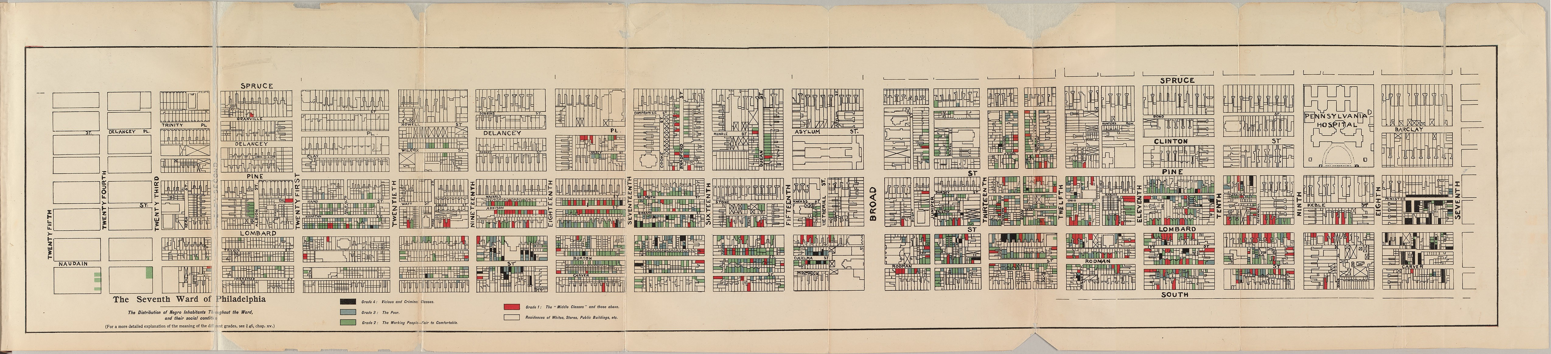 Map of the distribution of African-American inhabitants of the 7th ward of Philadelphia, as published in The Philadelphia Negro by W. E. B. DuBois, 1899